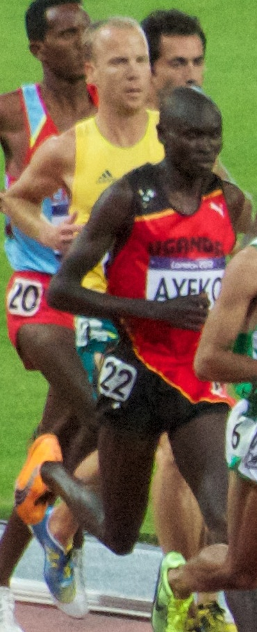 Ben St Lawrence and Thomas Ayeko competing at the 2012 Summer Olympics